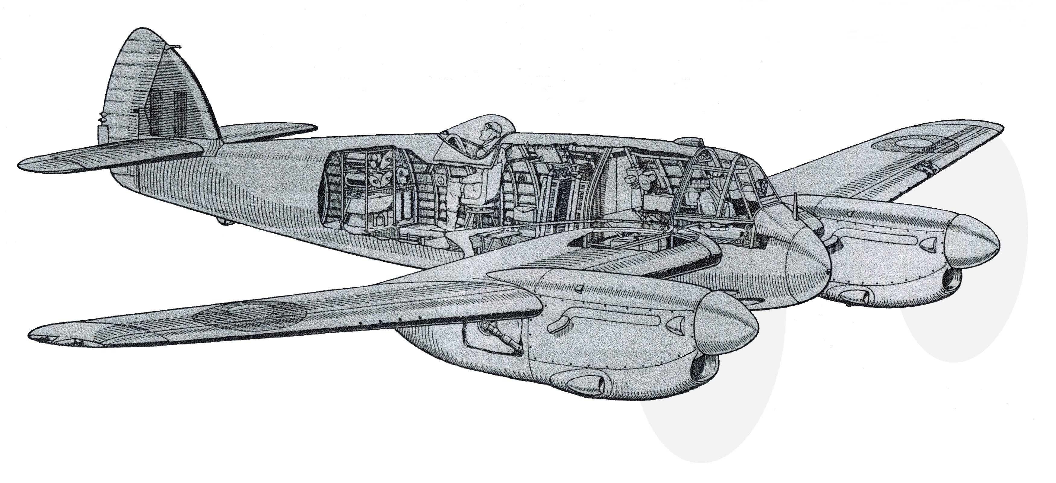 Cut-away drawing of a Mk.II Bristol Beaufighter, fitted with Rolls-Royce Merlin XX engines. All other variants of the Beaufighter had Bristol Hercules engines. Probably for security reasons, the drawing omits the aerials of the on-board ("AI") radar equipment routinely fitted to these aircraft.